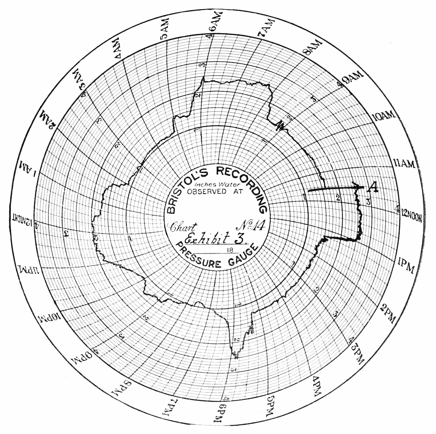 Pressure recorder indicating high abnormal gas flow